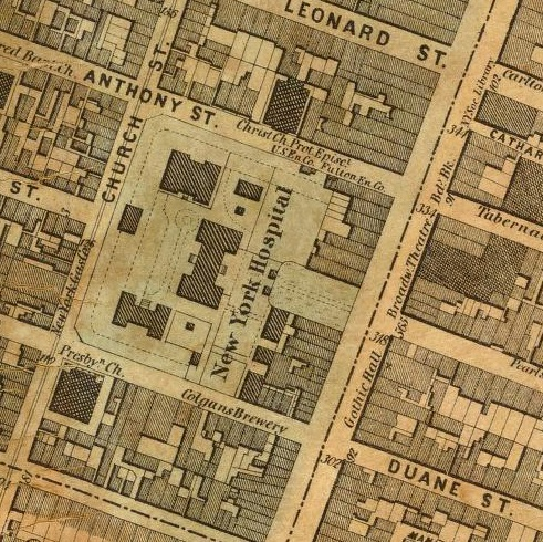 Map showing New York Hospital on Broadway in between Duane and Worth Streets, with Church street to the rear.